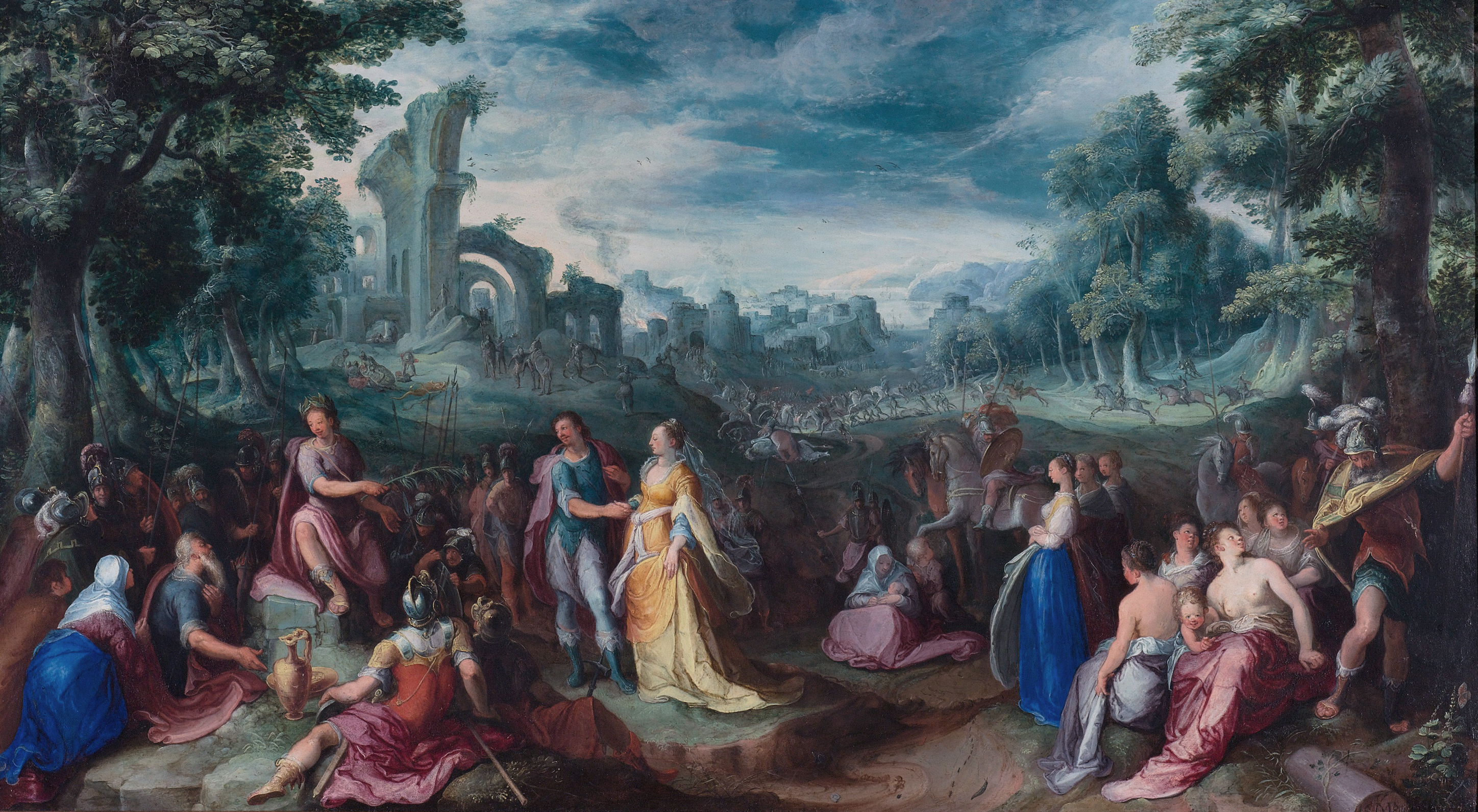 Two sided copper painting, with The Continence of Scipio on one side and an Allegory of Nature (see File:Mander, Carel van (Elder) - Allegory of Nature - 1600.jpg) on the other side. Because the Allegory of Nature shows traces of wear and tear it is thought that the copper plate originally served as a cabinet door, with the Allegory of Nature on the outside and The Continence of Scipio on the inside of the cabinet.